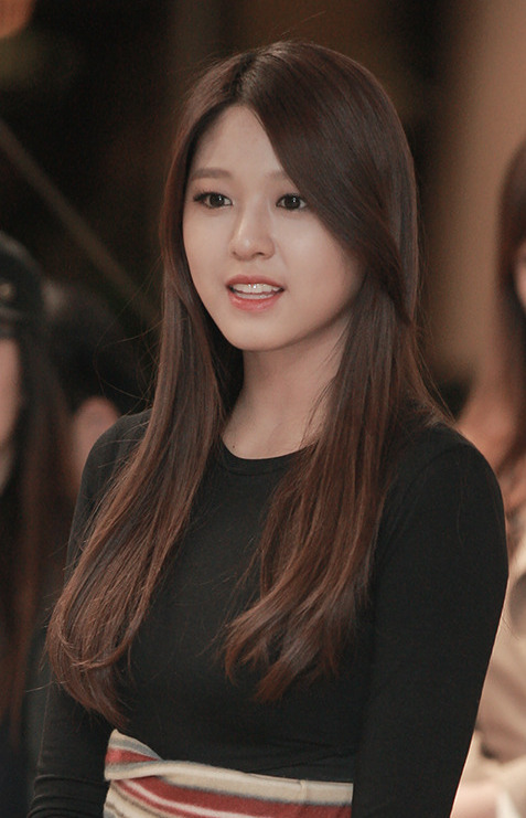 Kim Seolhyun at a fansigning event for "Red Motion" at Gimpo Airport, October 2013